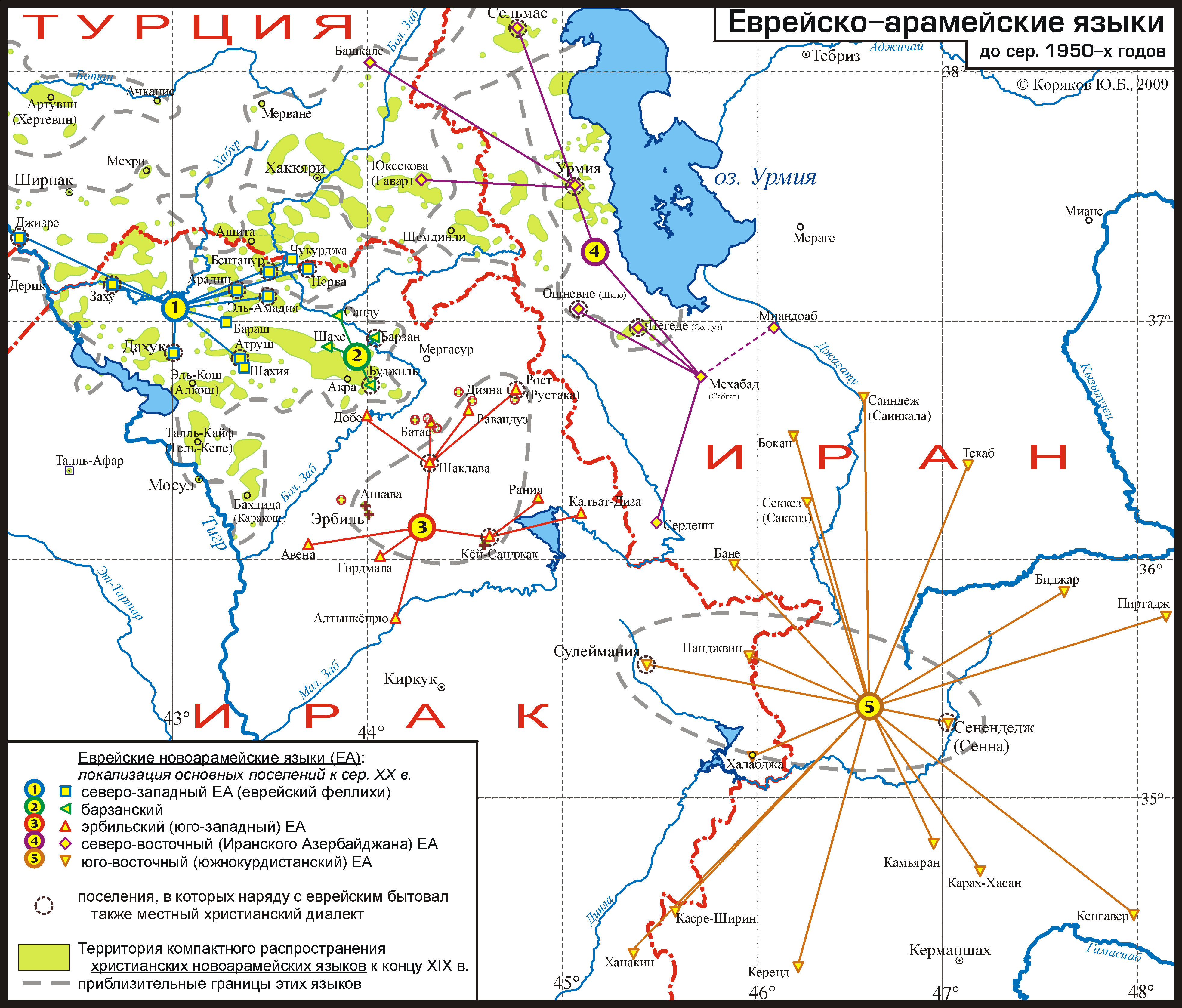 Map of Jewish Aramaic languages in traditional area up to the mid 1950s.